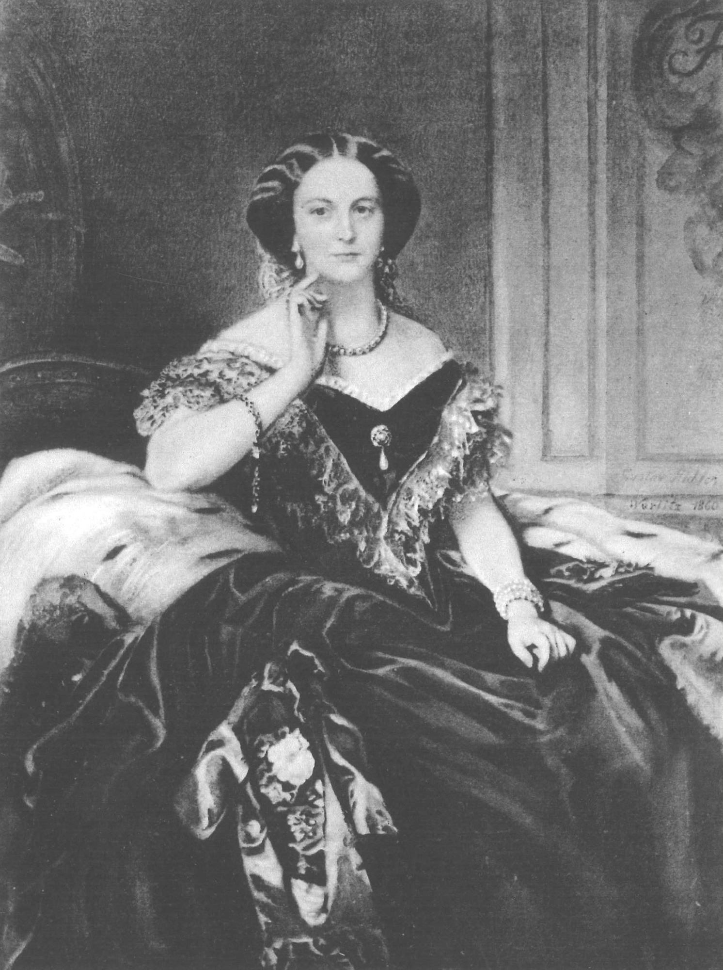 Herzogin Antoinette of Anhalt